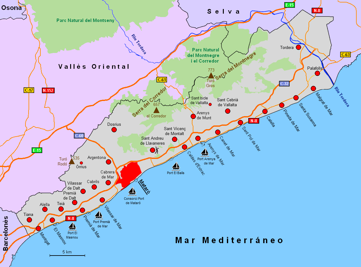 Map of the comarca Maresme, Catalonia, Spain